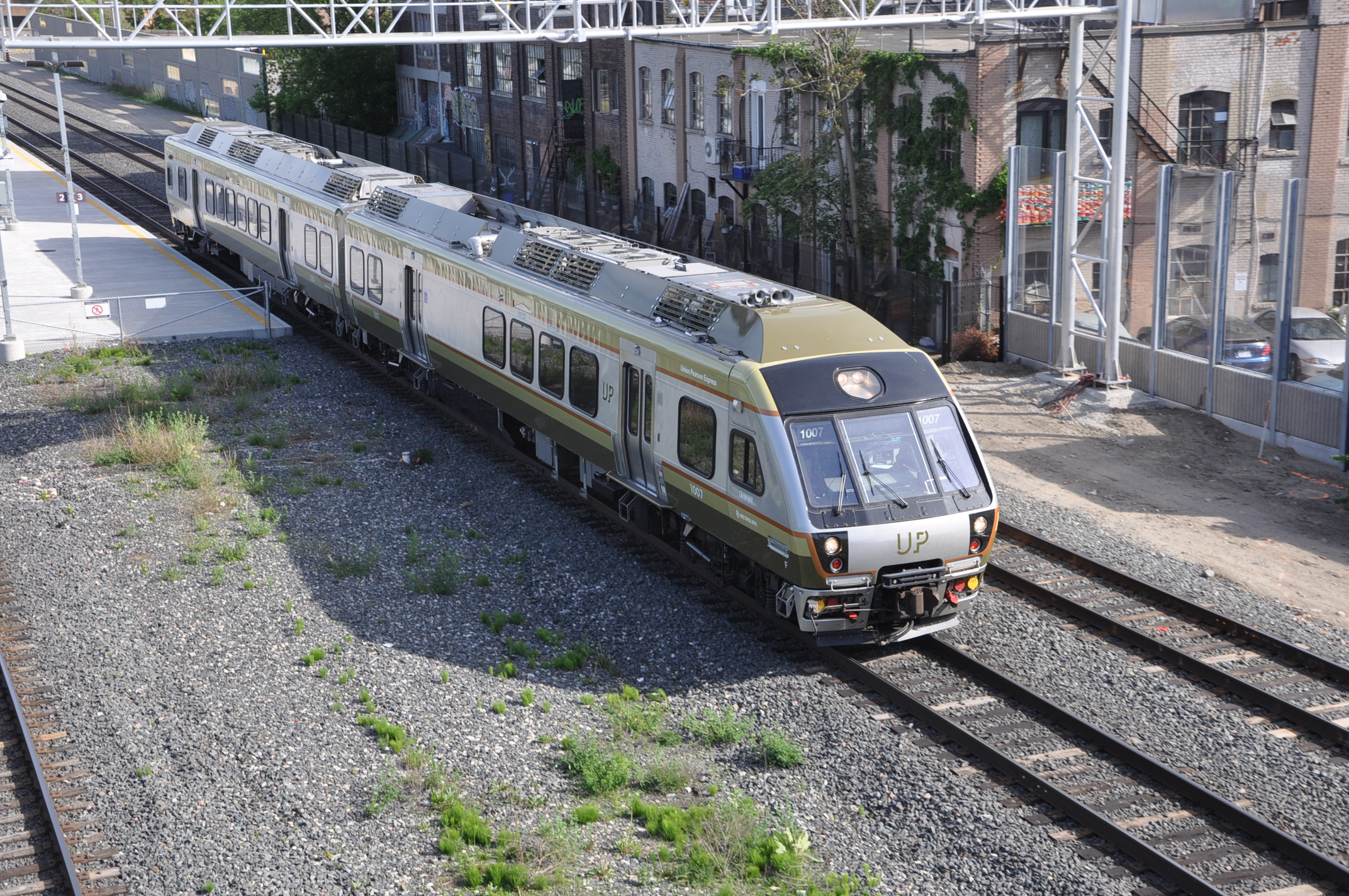 Union-Pearson Express Nippon Sharyo DMU accelerating out of Bloor GO station.